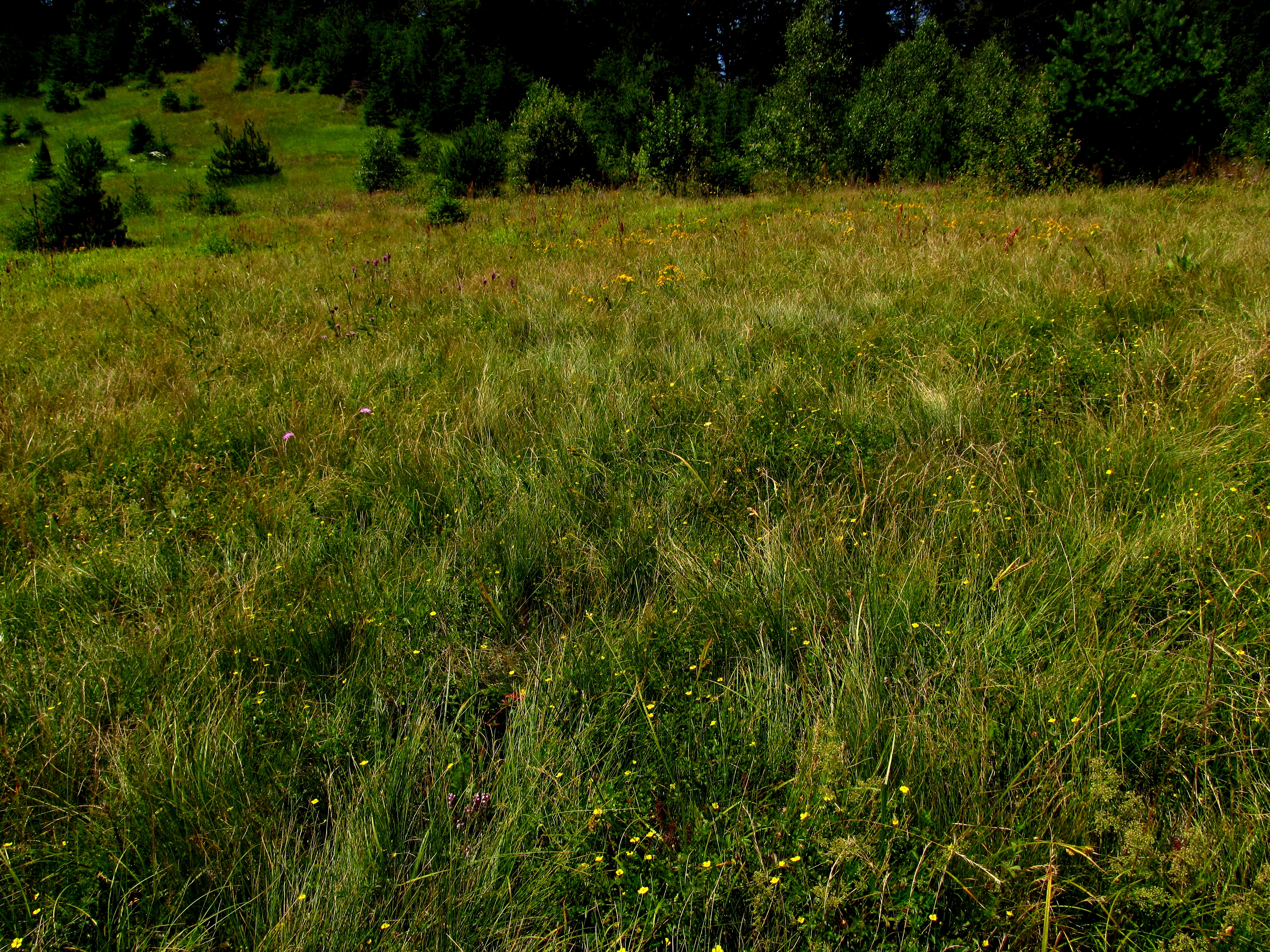 Matgrass Srpski (latinica): Tvrdača, tipac